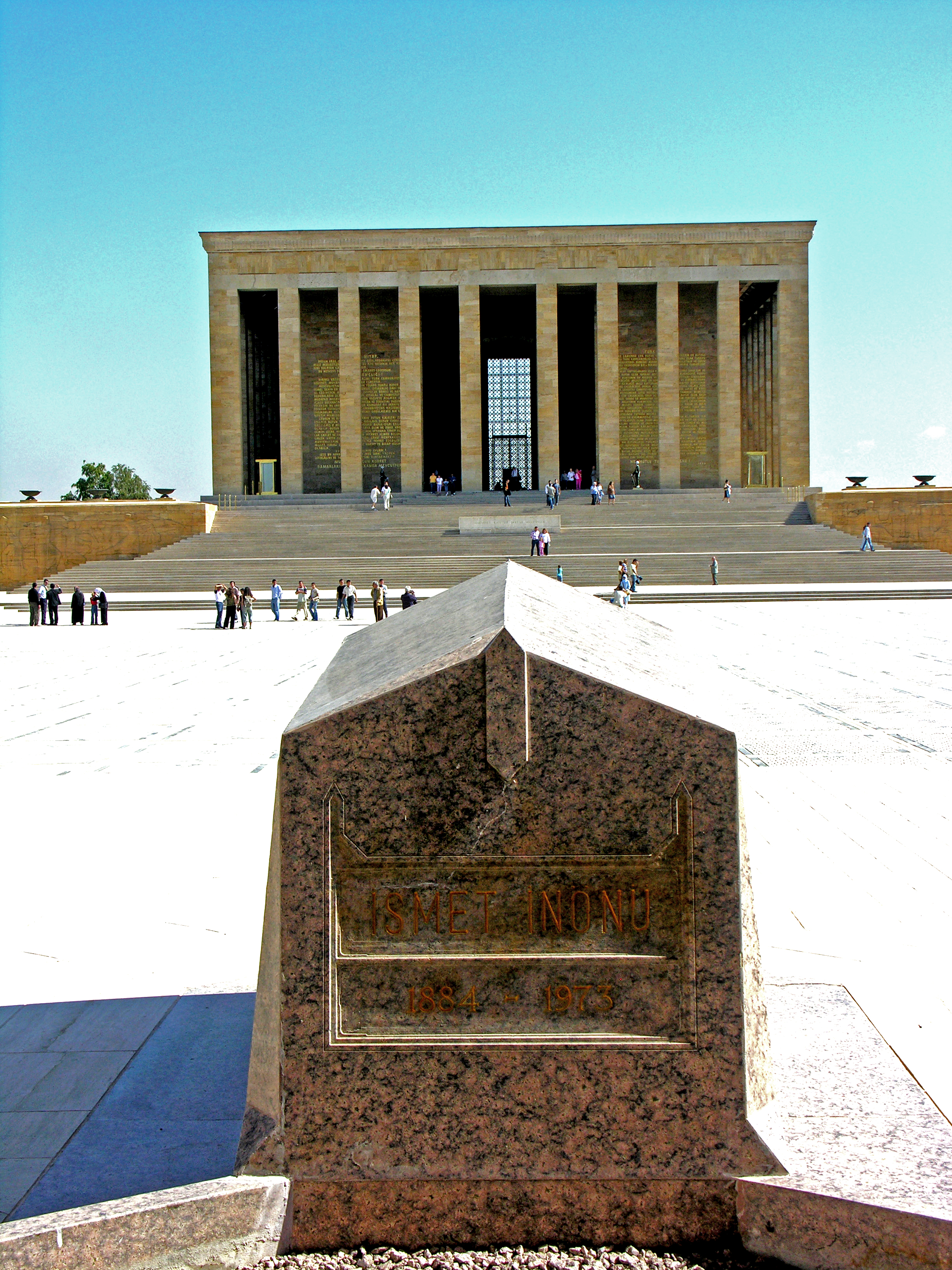 The sarcophagus of Ismet Inonu, Ataturk's right-hand man. On 30th October 1923 he became the first Prime Minister of Turkey. After the death of Mustafa Kemal Atatürk (10th November 1938) he was elected as the President and carried the title until 14th May 1950. Ankara, Turkey